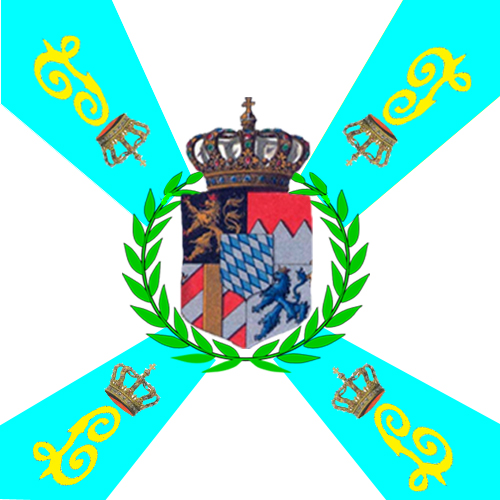 Royal Bavarian Infantry Regiment Flag